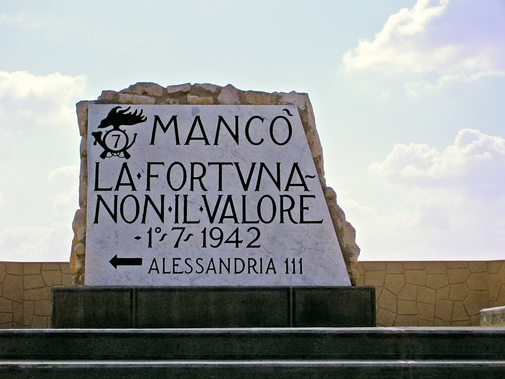 Picture on the way back from a visit to the El Alamein battlefield cemetery and museum.